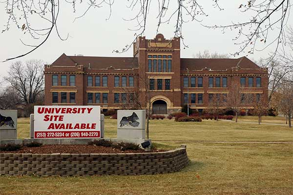 Voorhees Hall, the main building of the former Huron University, Huron. Photograph taken as the campus awaits a potential buyer.